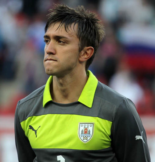 Fernando Muslera